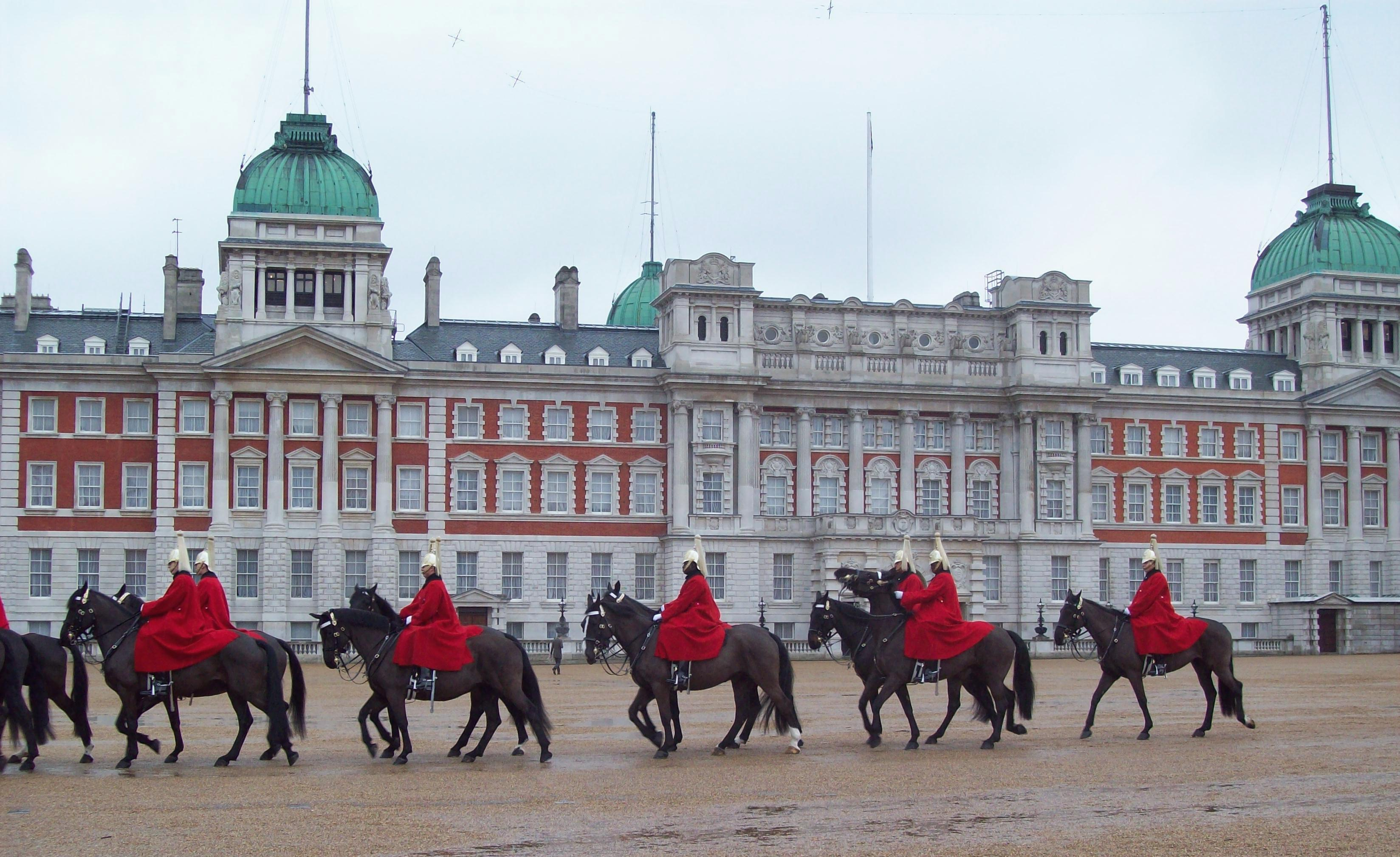 A rainy January afternoon at Horse Guards Parade.